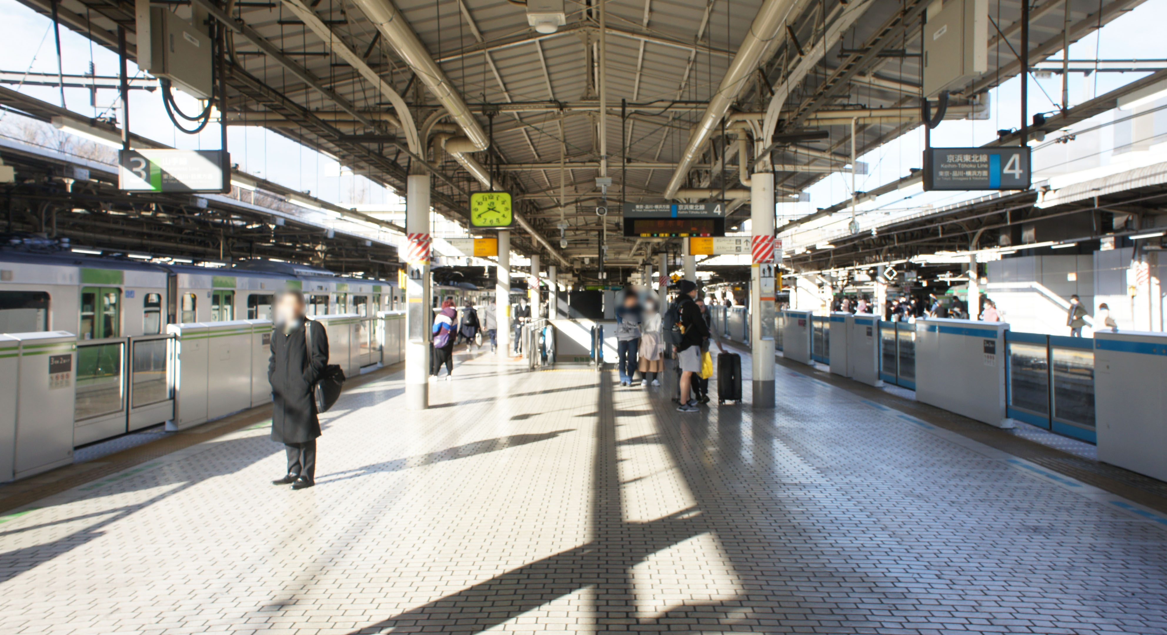 Platform 3・4 of JR Ueno Station Sony NEX-3 + E 18-55mm F3.5-5.6 OSS